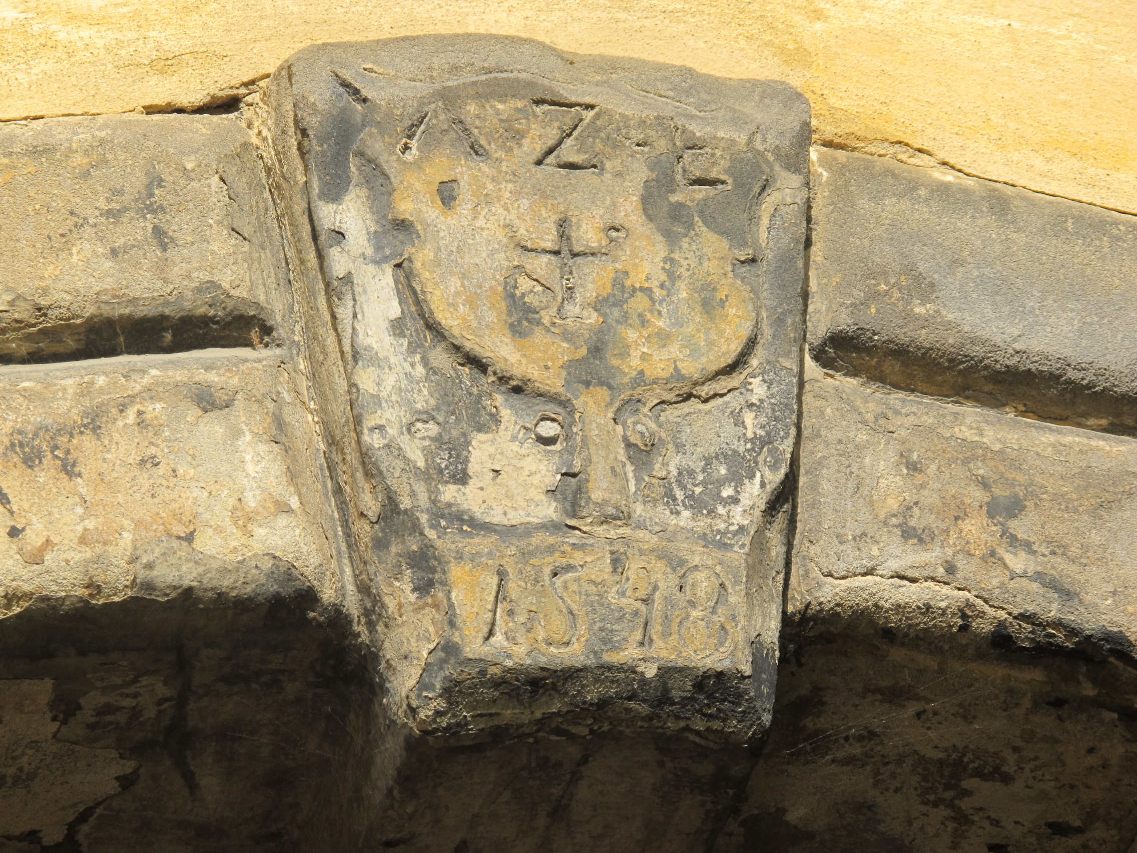 Monastery in Panenský Týnec - stone above the portal from 1547